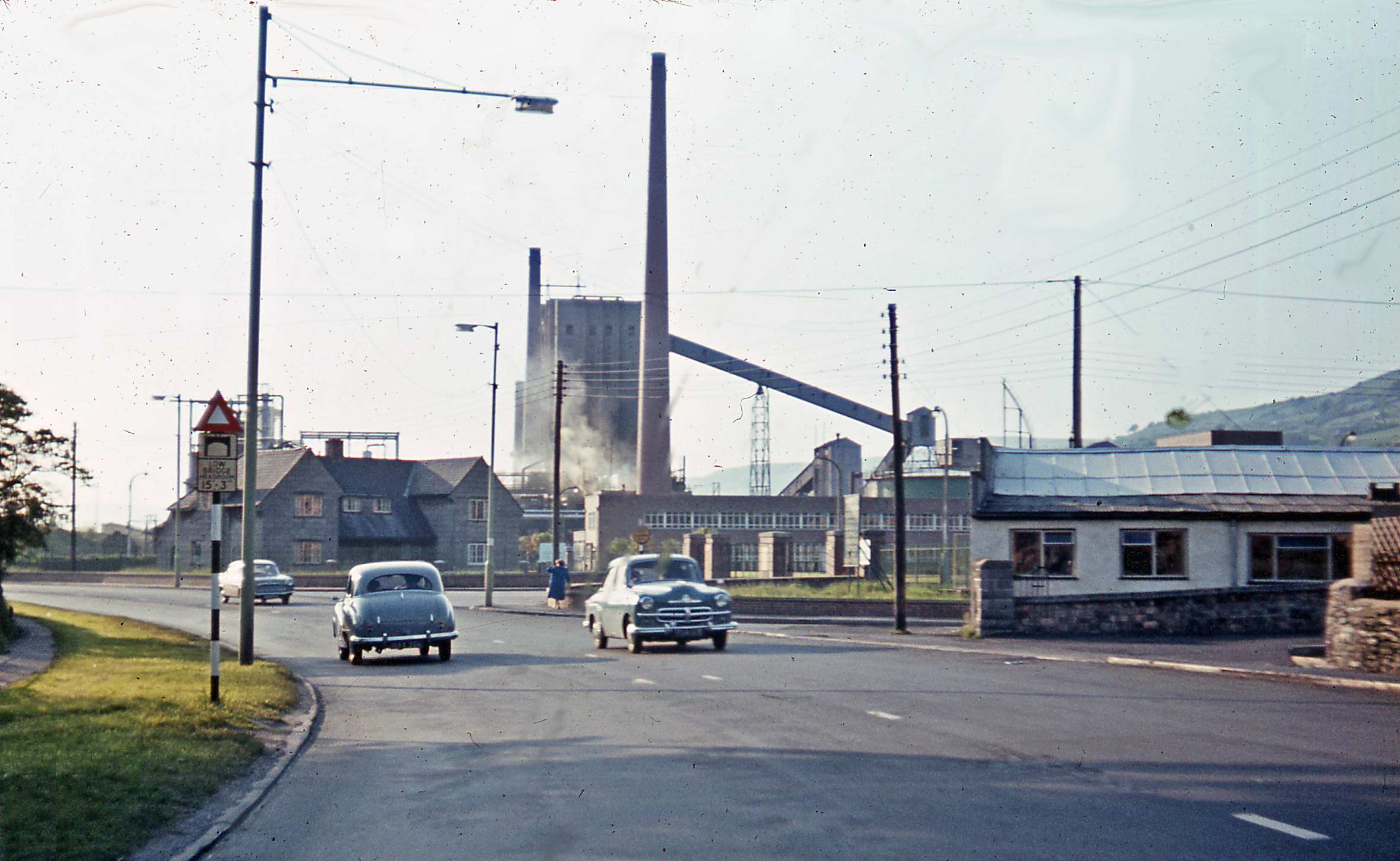 Nantgarw Colliery from A470 Taff Vale road, 1962. View NW, towards Pontypridd. The Colliery was closed in 1986 and this is now the industrial Parc Nantgarw. Everything is totally different 50 years later.